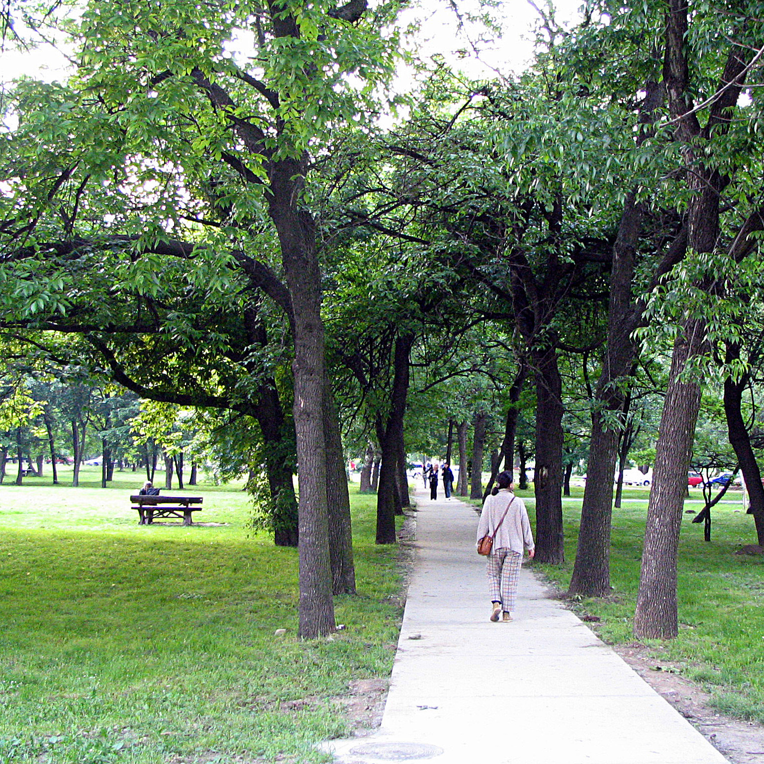 Fraxinus americana in river island Ada Ciganlija, Belgrade